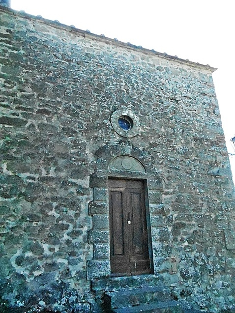 company